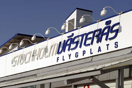 Stockholm-Vasteras Airport